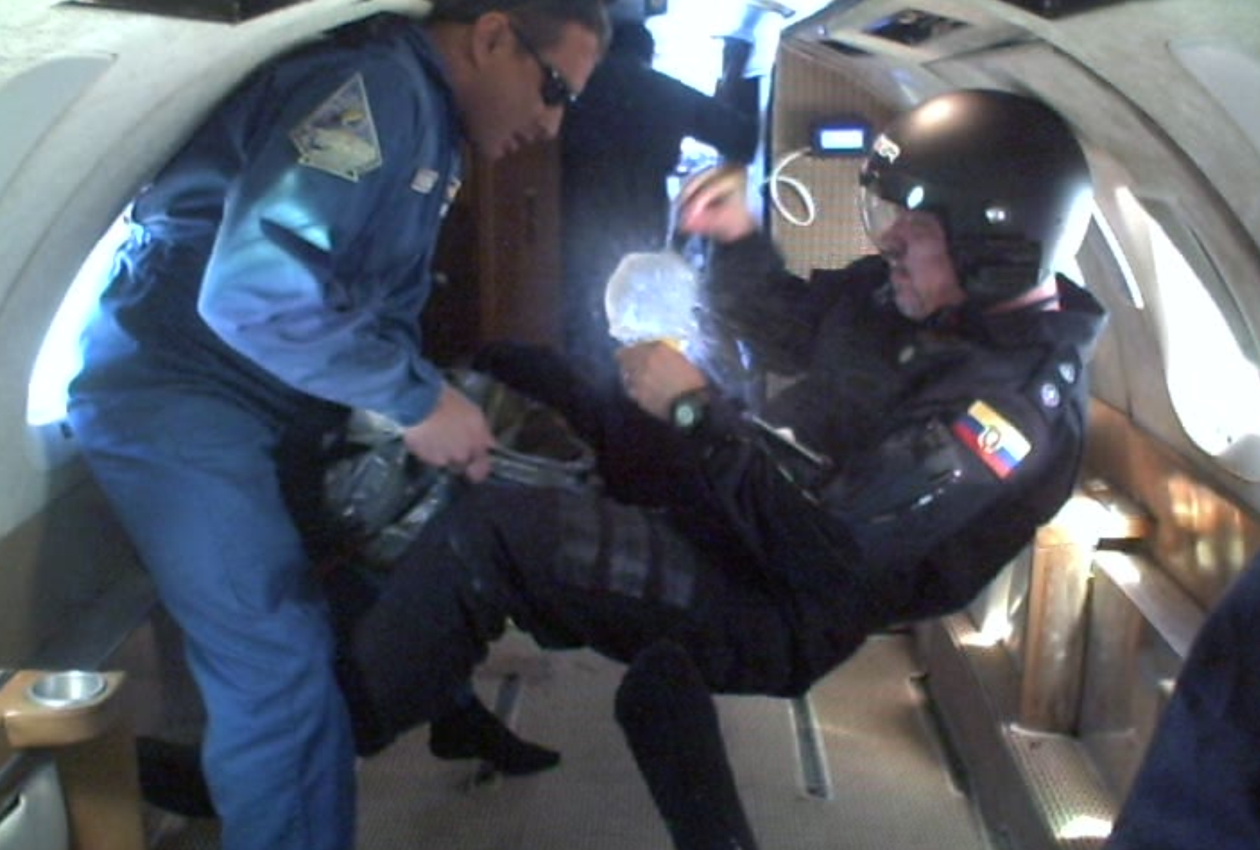 EXA/FAE-05 Mission: Hydrodynamic Testing in microgravity. Commander Ronnie Nader and Captain Camilo Miño are seen bursting a balloon filled with water while in microgravity (0.00006 G) aboard T-39 Sabreliner FAE 047.